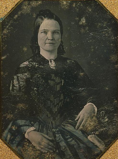 Lincoln's wife